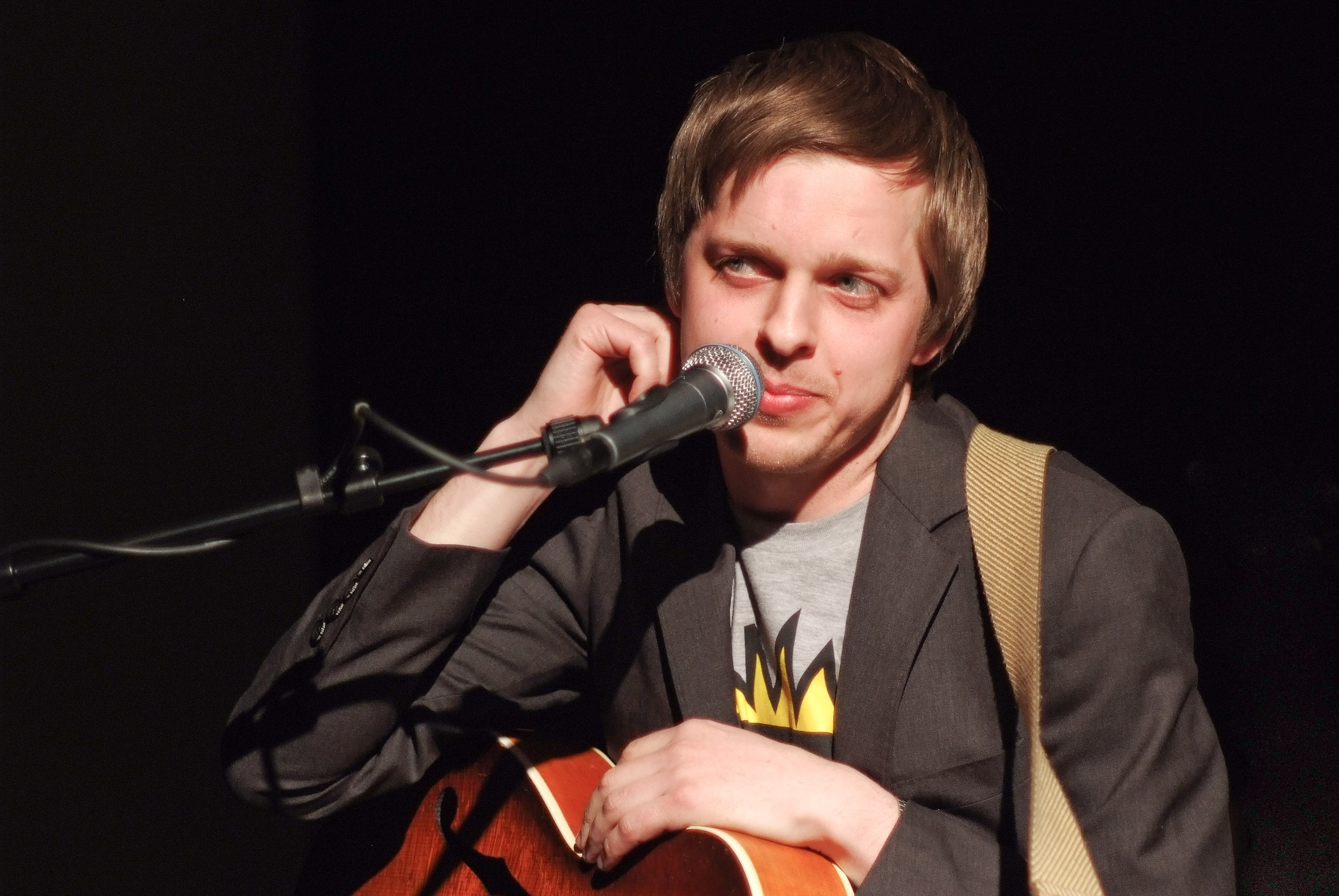 Teitur Lassen, Faroese singer/songwriter at a concert in Nordatlantens Brygge, Copenhagen